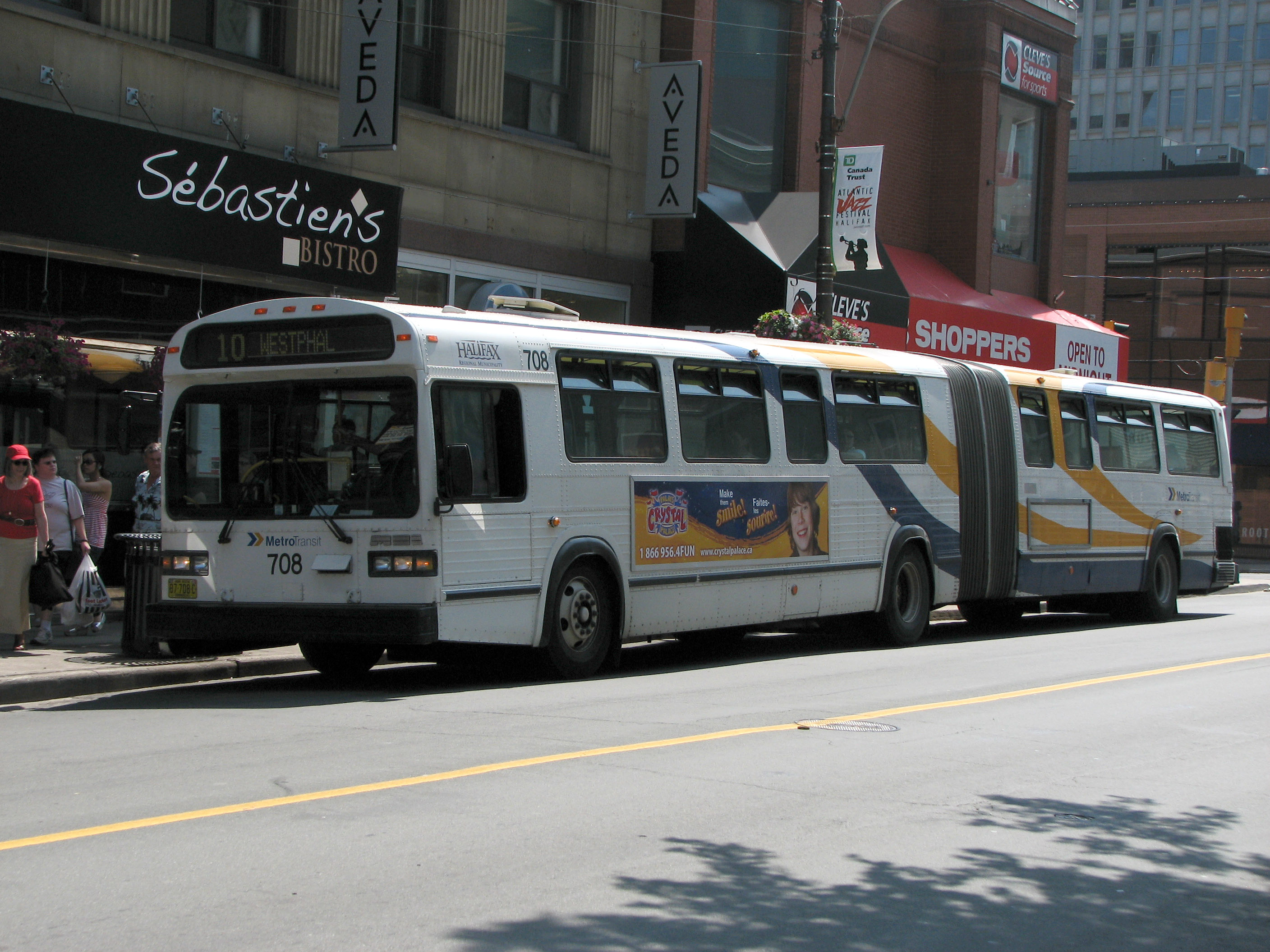 Halifax Metro Transit bus number 708, a 1993 MCI Articulated Classic.